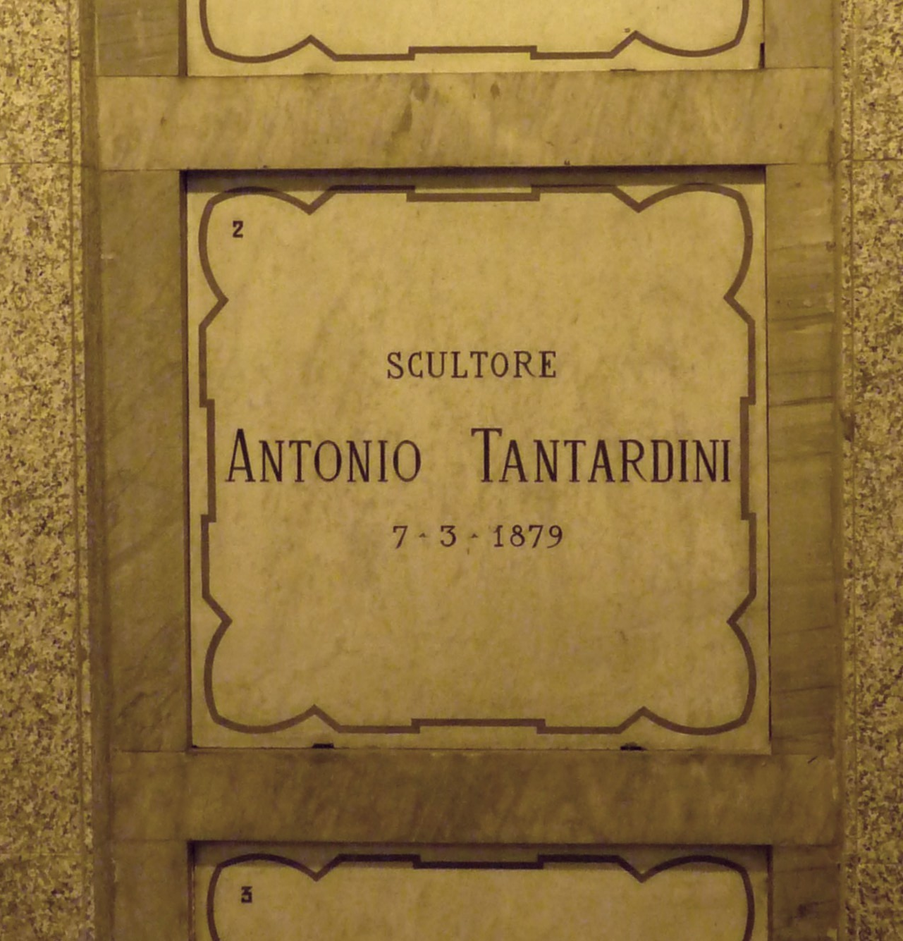 The grave of Italian sculptor Antonio Tantardini at the Monumental Cemetery of Milan, Italy.